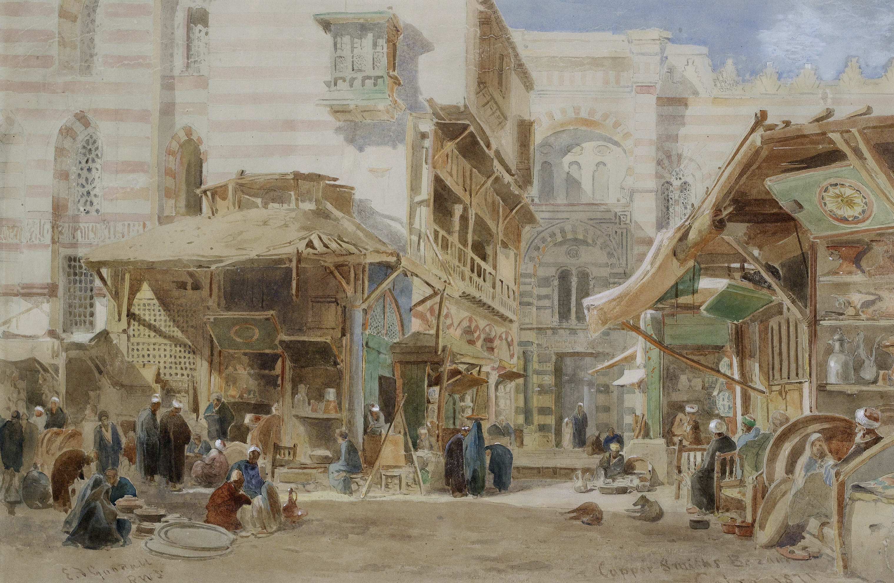 Copper market, Cairo; signed 'E A Goodall RWS' (lower left); inscribed and dated 'Copper Smiths Bazaar / Cairo 1871' (lower right); watercolour on paper; 35 x 54 cm